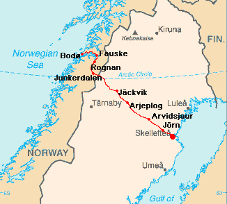 Description: Map of "Silvervägen", Sweden Source: Image Skellefteå in Sweden.png modified Date: 19-November-2005 Author: Gerd Thiele